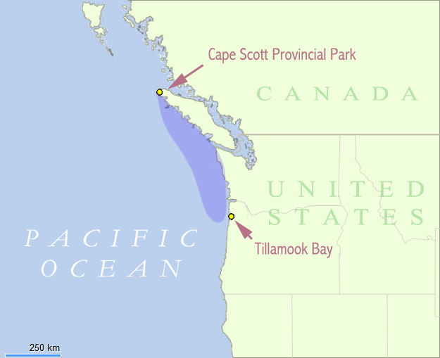 Area of the Pacific Ocean roughly corresponding to what is known as the "Graveyard of the Pacific."